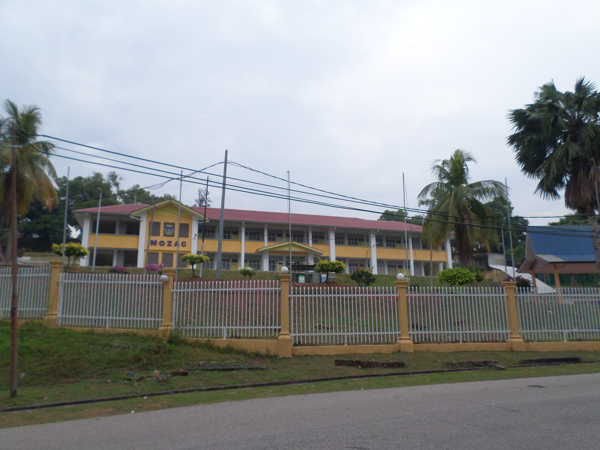 Muzaffar Syah Science High School, Ayer Keroh, Malacca, MalaysiaBahasa Melayu: Sekolah Menengah Sains Muzaffar Syah, Ayer Keroh, Melaka, Malaysia